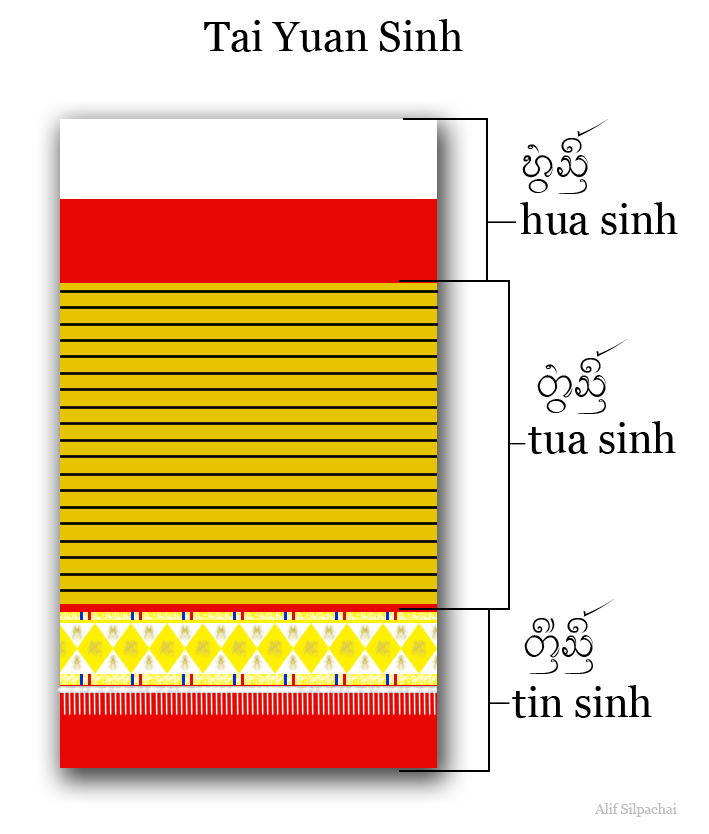 The drawing describes the three parts of a sinh. This style of sinh is typically worn by Tai Yuan (Northern Thai/Lanna) women.